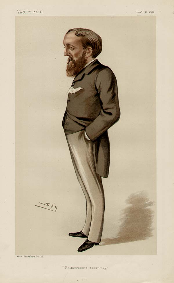 Statesmen No.438: Caricature of The Hon AEM Ashley MP. Caption reads: "Palmerston's Secretary"